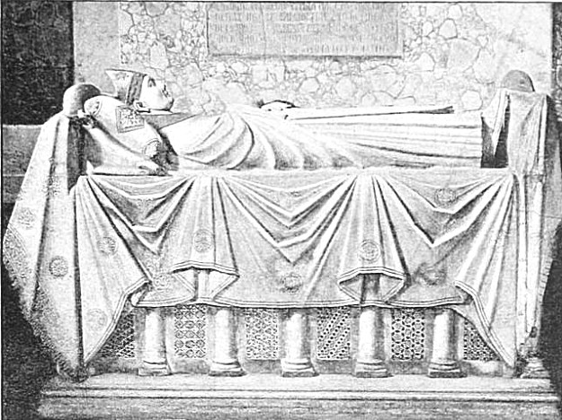 Tomb of Honorius IV